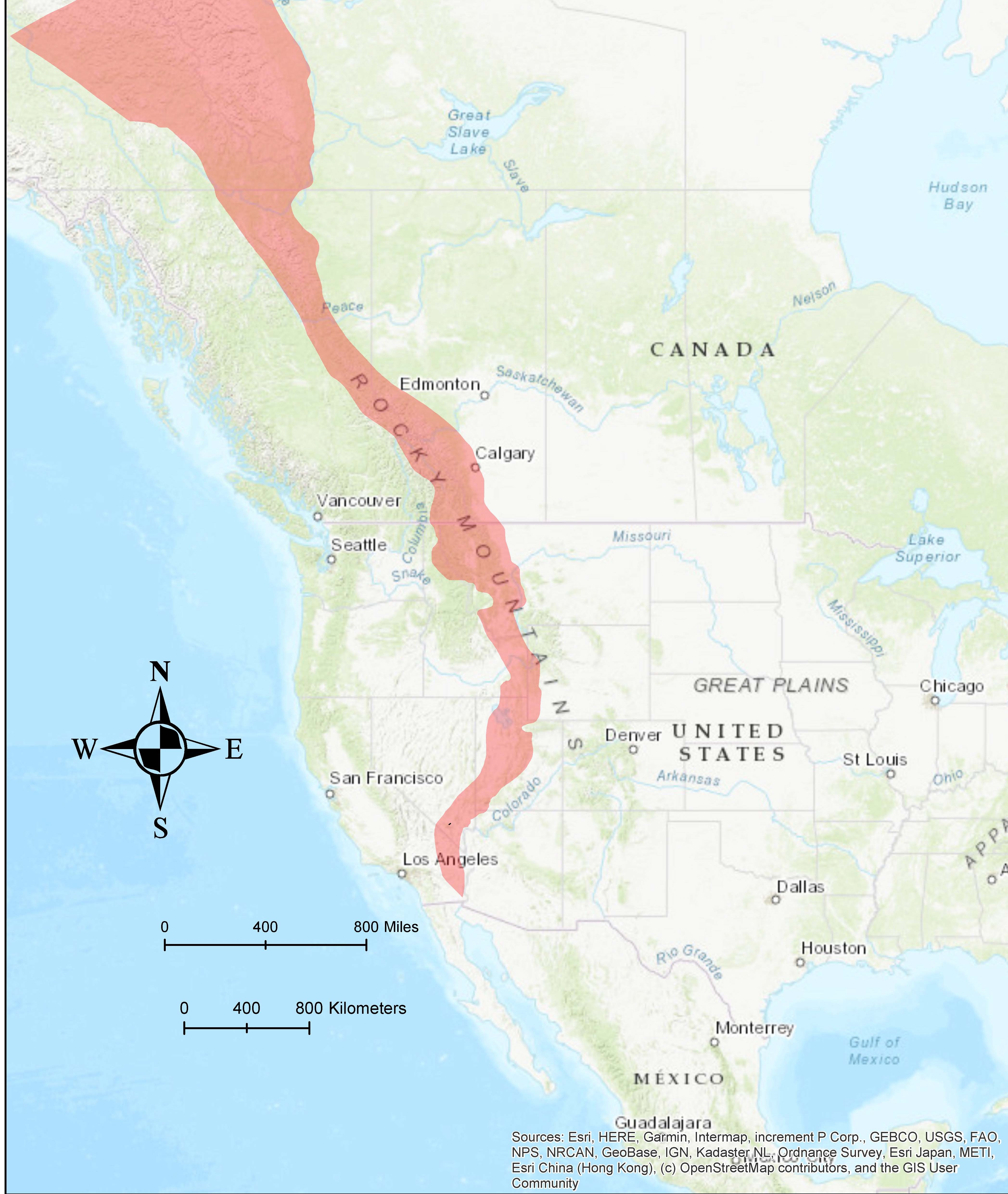 This figure shows the extent of the Sevier Fold and Thrust Belt (outlined in red). After Yonkee and Weil (2015).